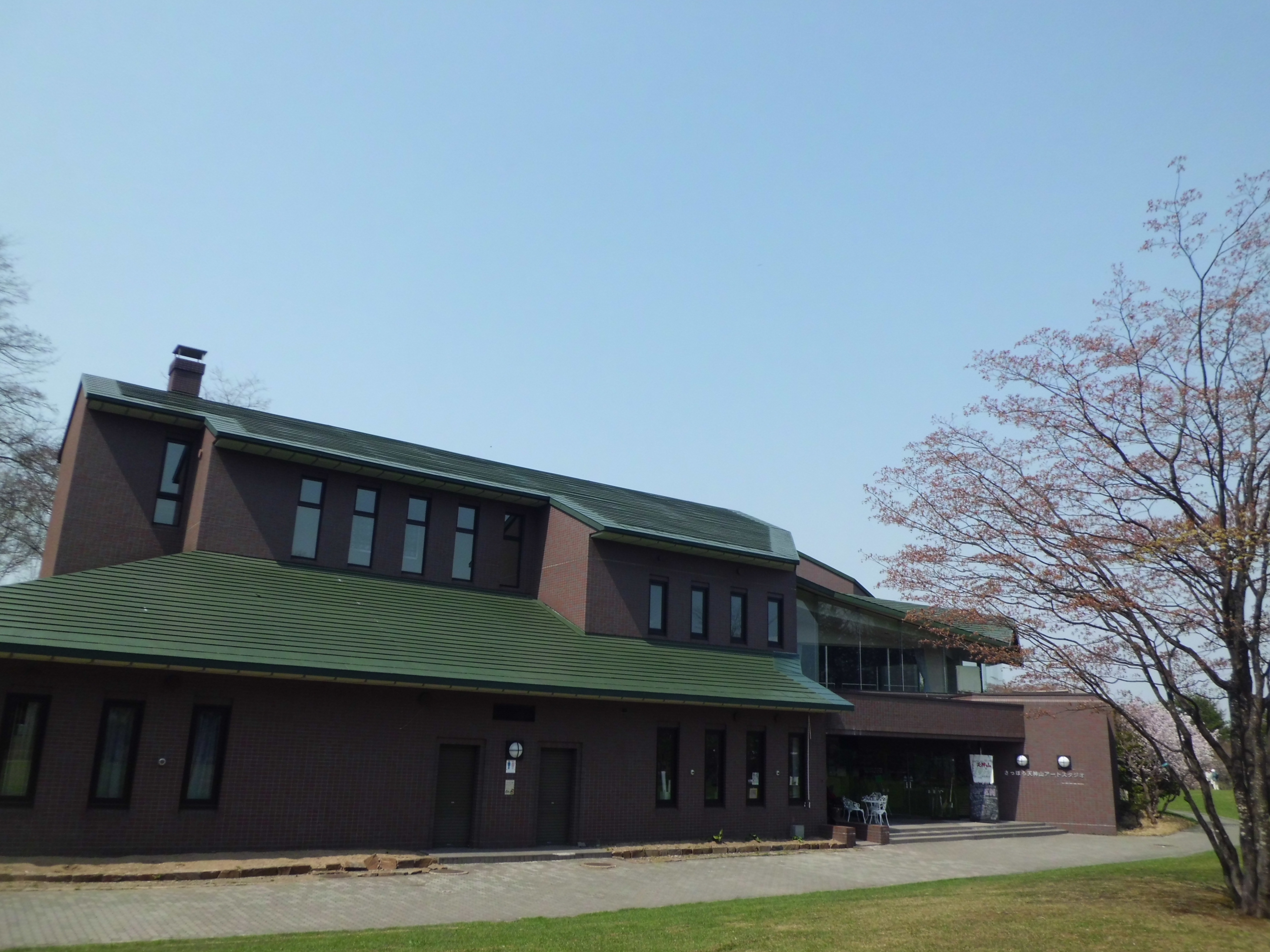 Sapporo Tenjin-yama Art Studio